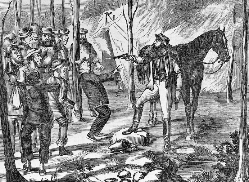 Morgan sticking up the navvies, burning their tents, and shooting the chinaman, wood engraving.